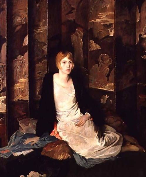 Mrs Henry Mond by Glyn Philpot (1884-1937)